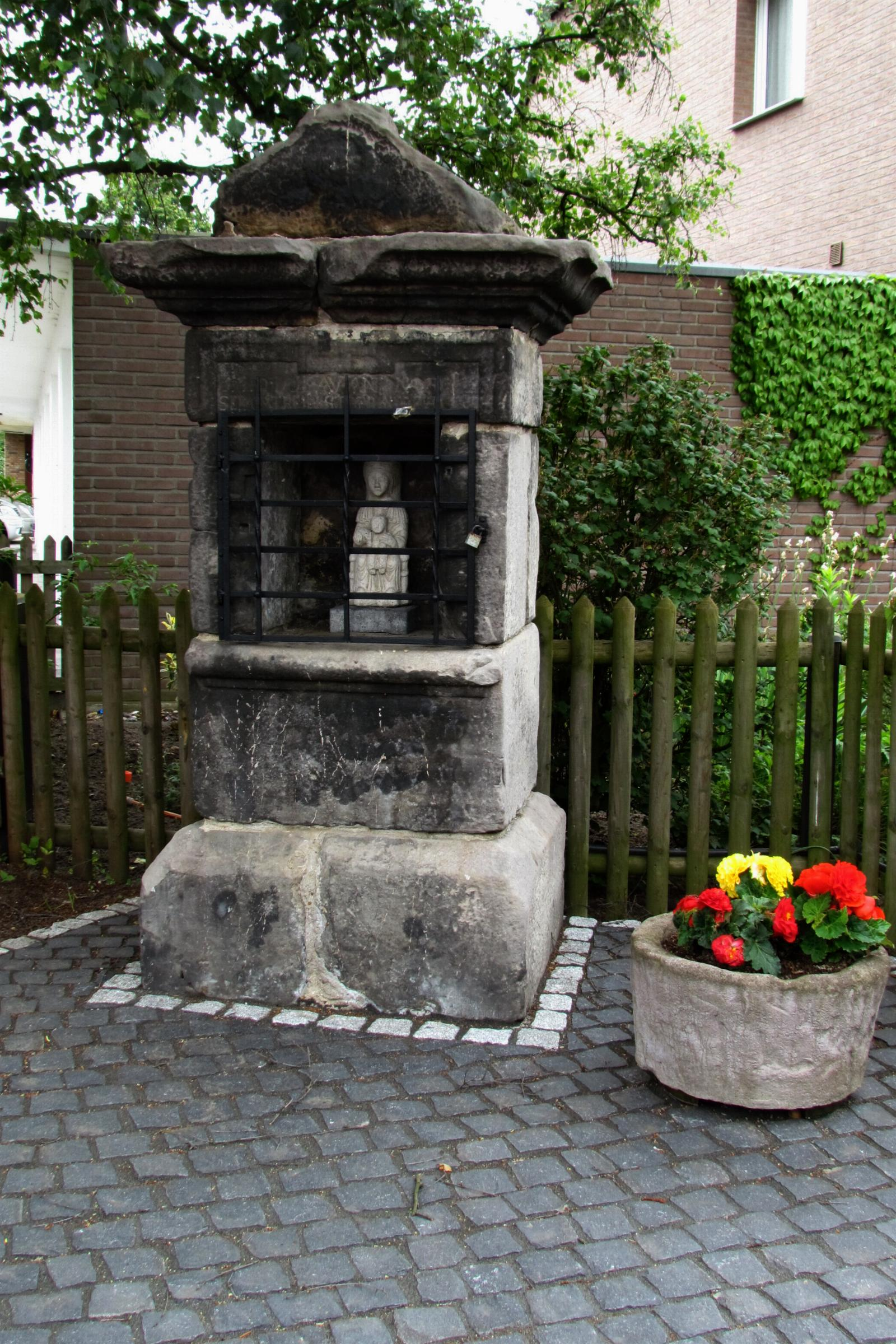 This is a photograph of an architectural monument.It is on the list of cultural monuments of Korschenbroich